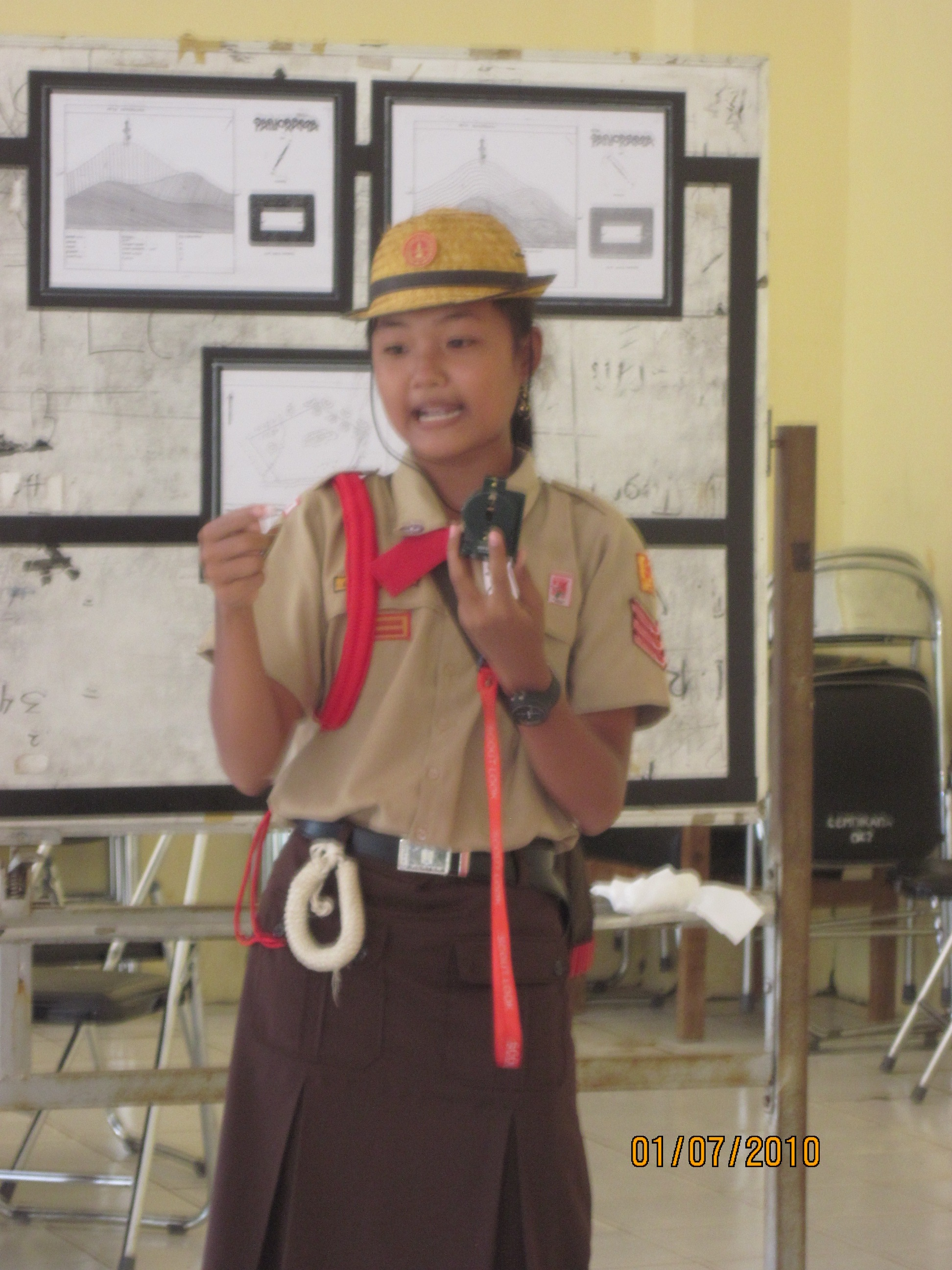 girl scout of indonesia